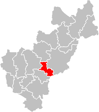 Map showing the municipality of Ezequiel Montes, State of Queretaro, Mexico